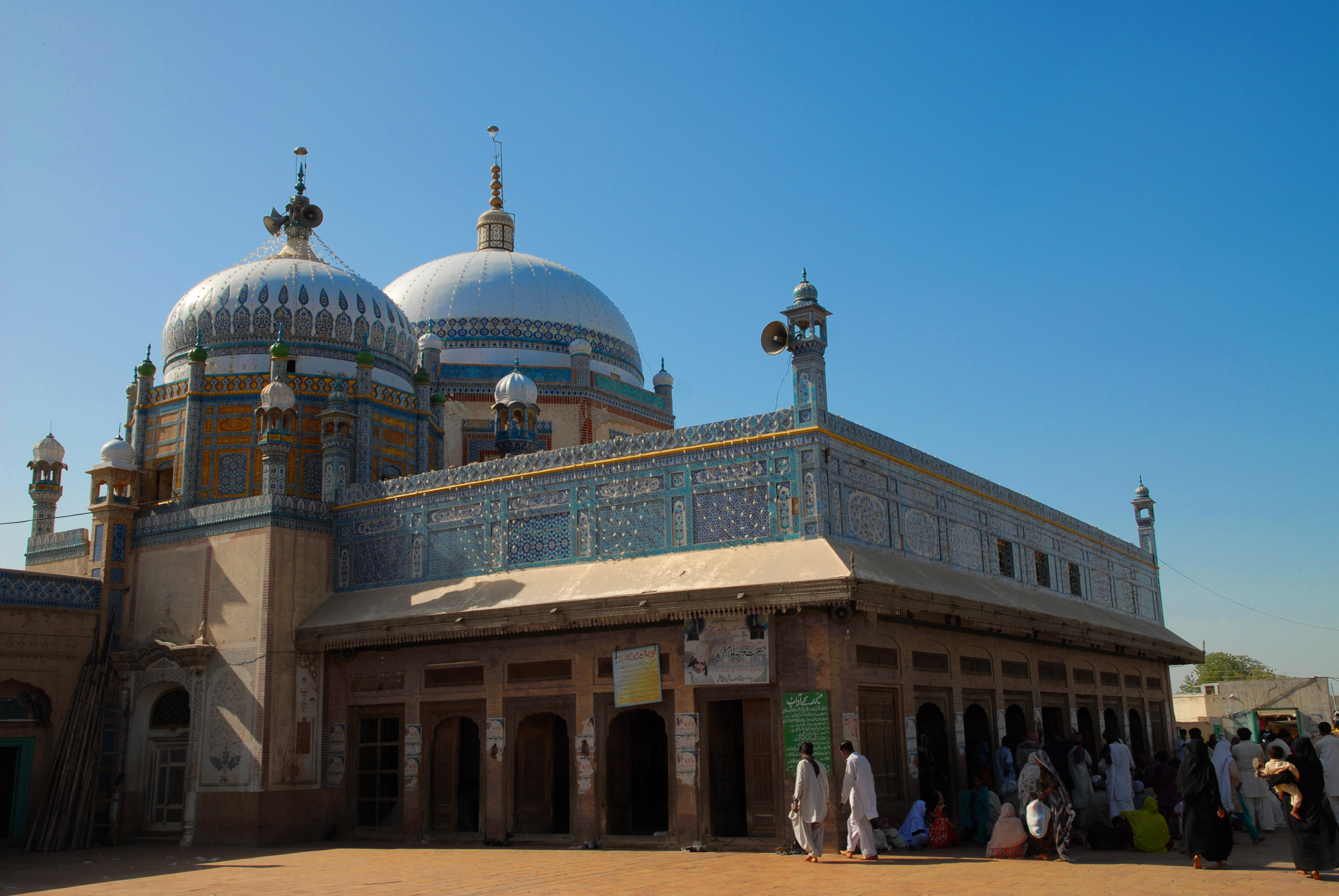 Shrine of Hazrat Khwaja Ghulam Farid This is a photo of a monument in Pakistan identified as the PB-P-197